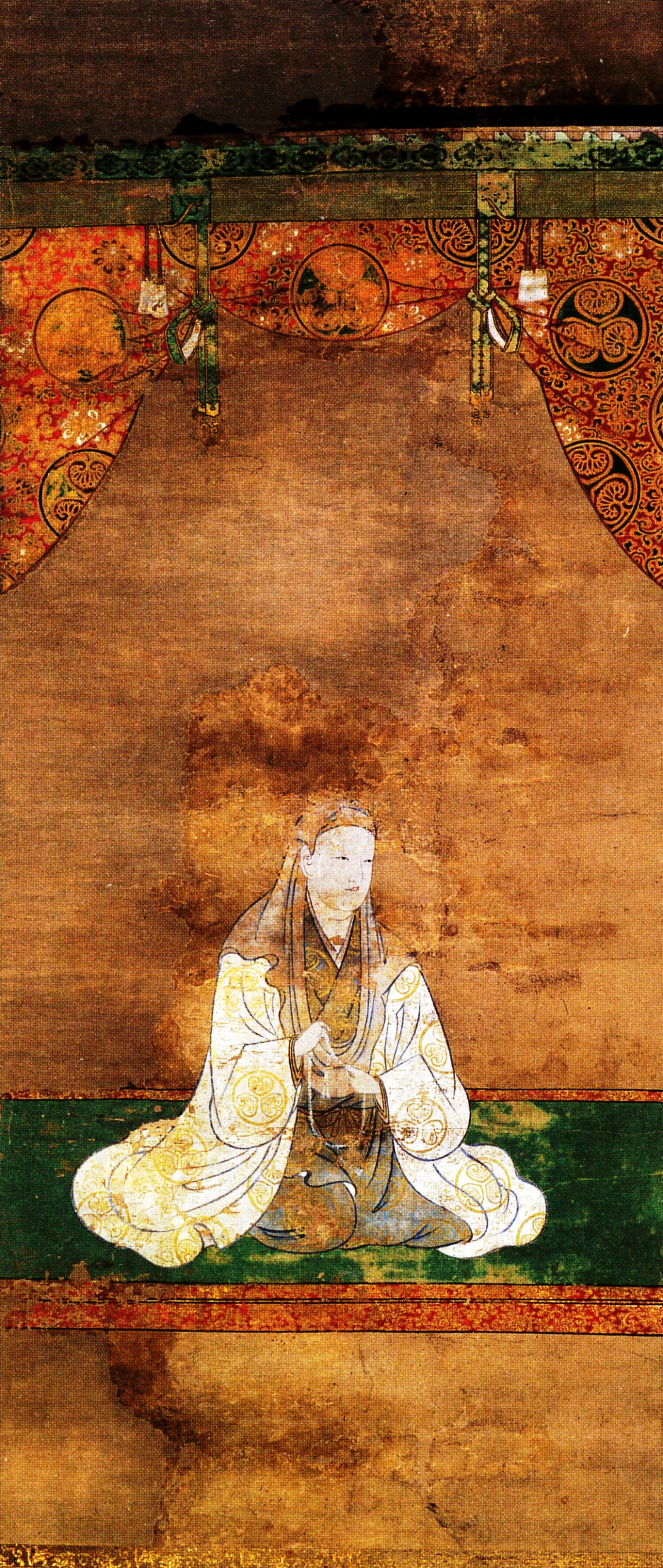 Portraito of Toku-hime(1565 - 1615) who is Tokugawa Ieyasu's daughter.